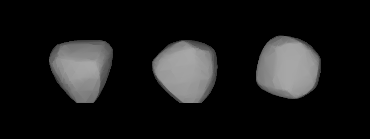 A three-dimensional model of 376 Geometria that was computed using light curve inversion techniques.